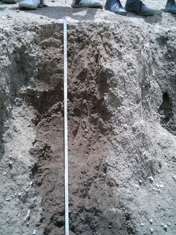 Haplic Fluvisol in Atsbi Ethiopia profile